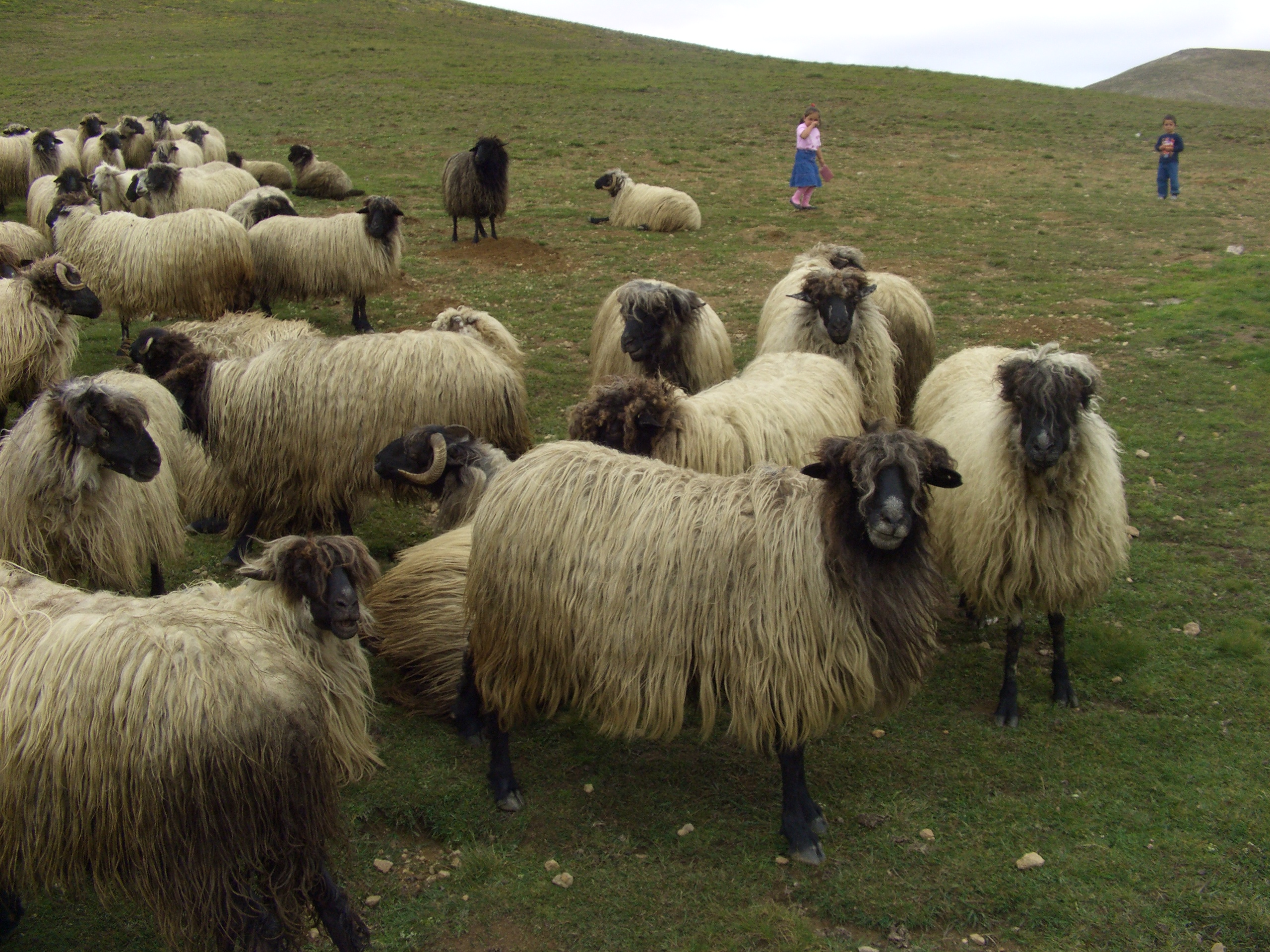 A Karayaka flock. Karayaka (black-neck in eng.) is a local breed native to Black Sea Region of Turkey. This local breed has thin tail and coarse fleece. But its meat is good quality.